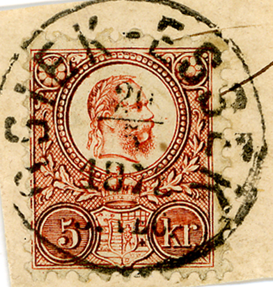 Kingdom of Hungary 5 kr vermillion stamp, engraved issue 1871, bilingual (Croat - German) cancelled OSIEK - ESSEK in 1873.